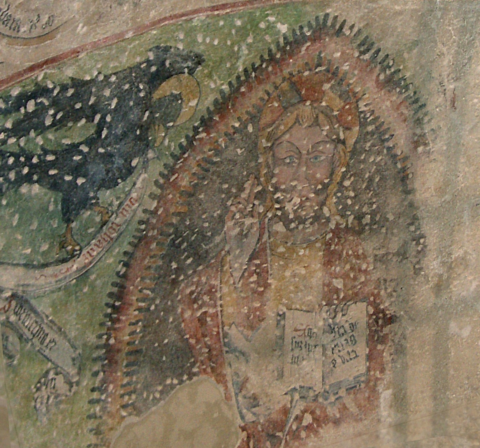 Unknown painter, (XV century) The blessing Christ , frescoe of the apse, Issiglio (TO), Cemetery church